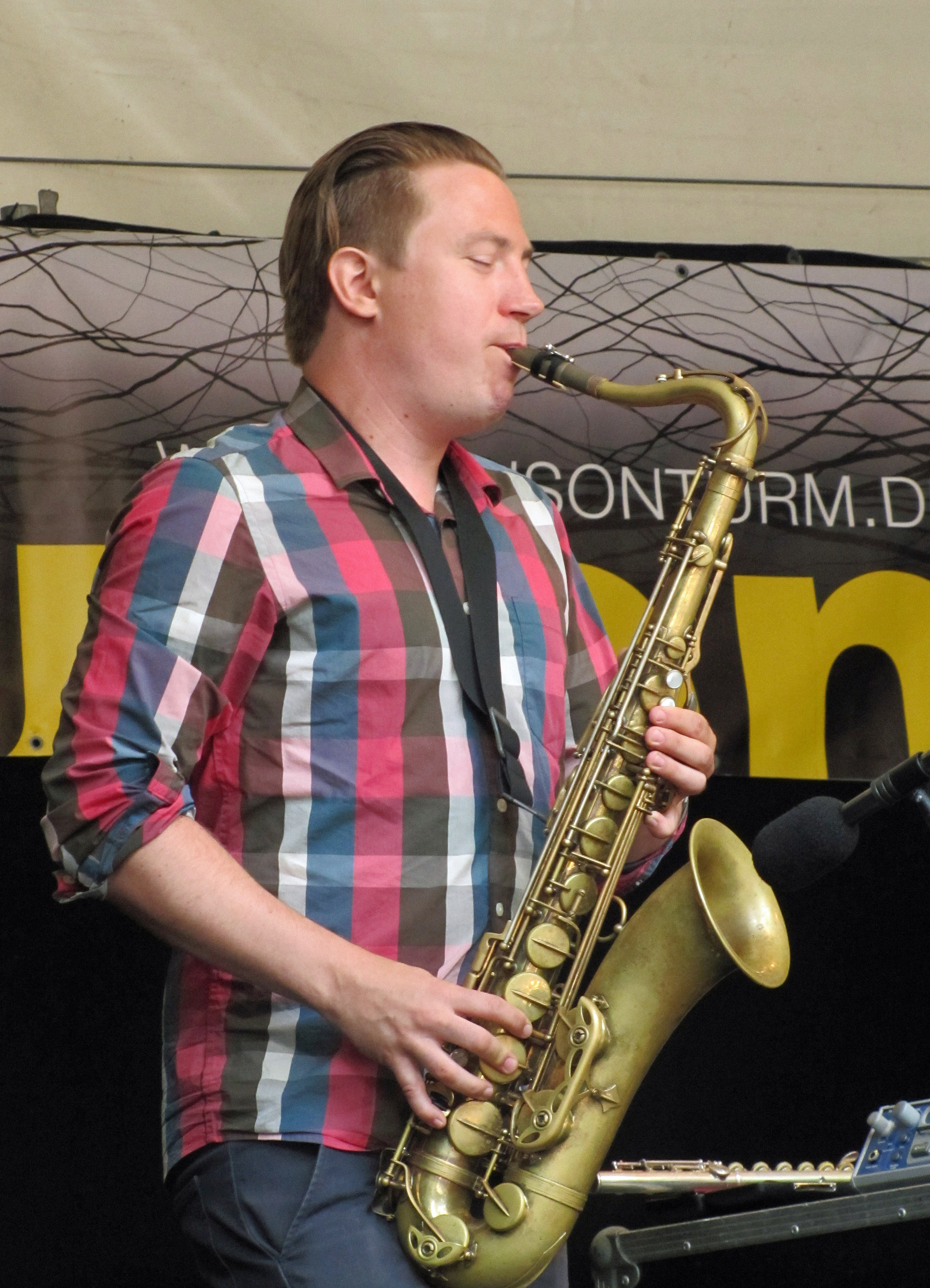 Hakon Kornstad (with Sidsel Endresen), 2010 in Frankfurt am Main, at garden of "Liebieghaus" (museum), Germany.